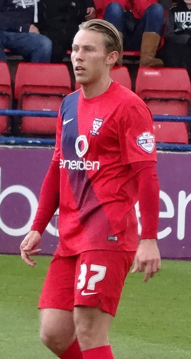 Danny Galbraith playing for York City against Bristol Rovers at Bootham Crescent, York on 30 April 2016